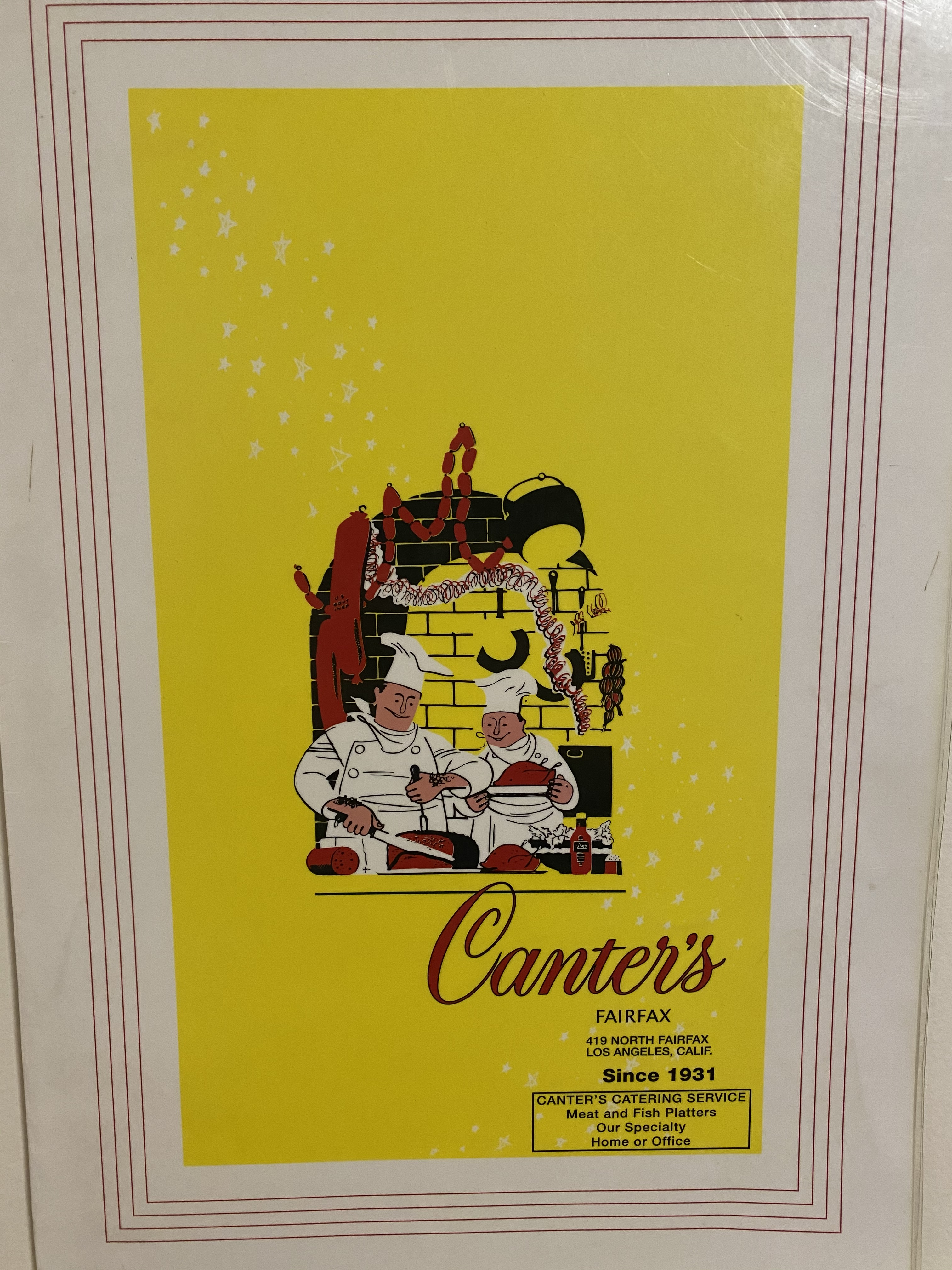 Original (at least until mid 2010's) Canter's Menu front.